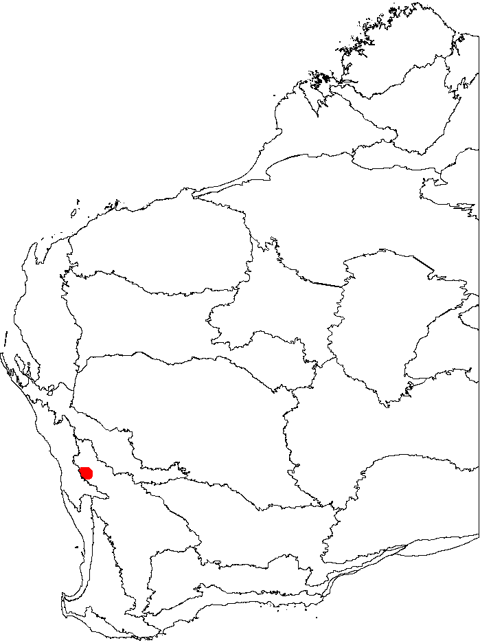 This is a map of Western Australia, showing the distribution of Banksia trifontinalis (Three Springs Dryandra) on a map of the IBRA 6.1 biogeographic regions.